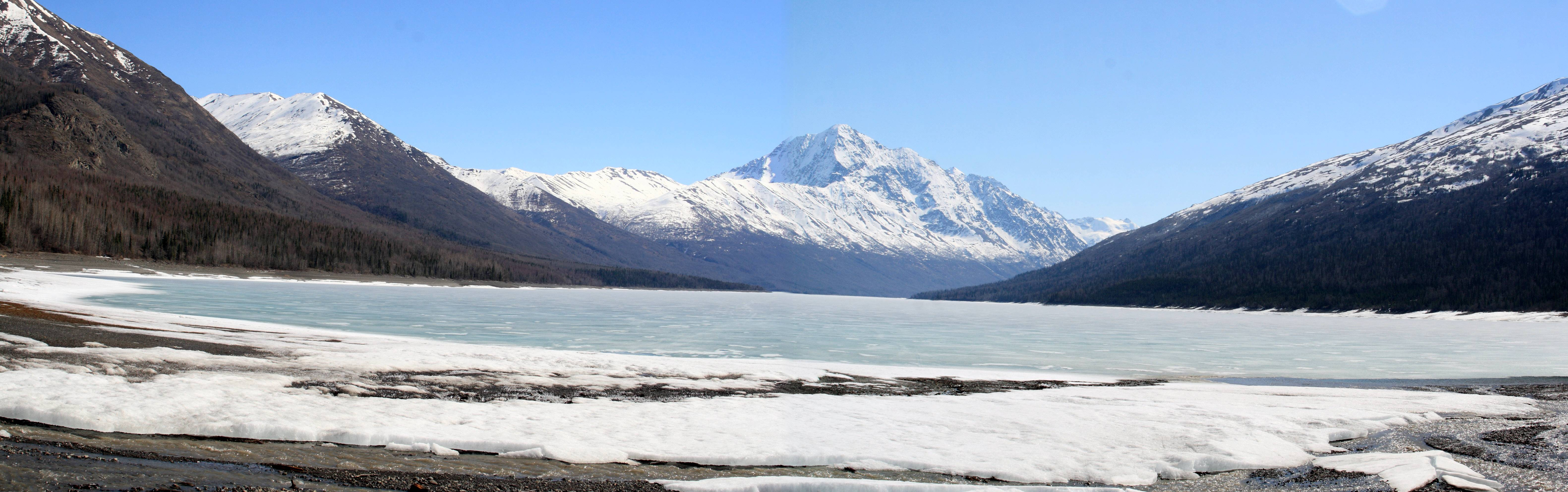 Eklutna Lake is a state park about 20 miles NE of Anchorage, Alaska.